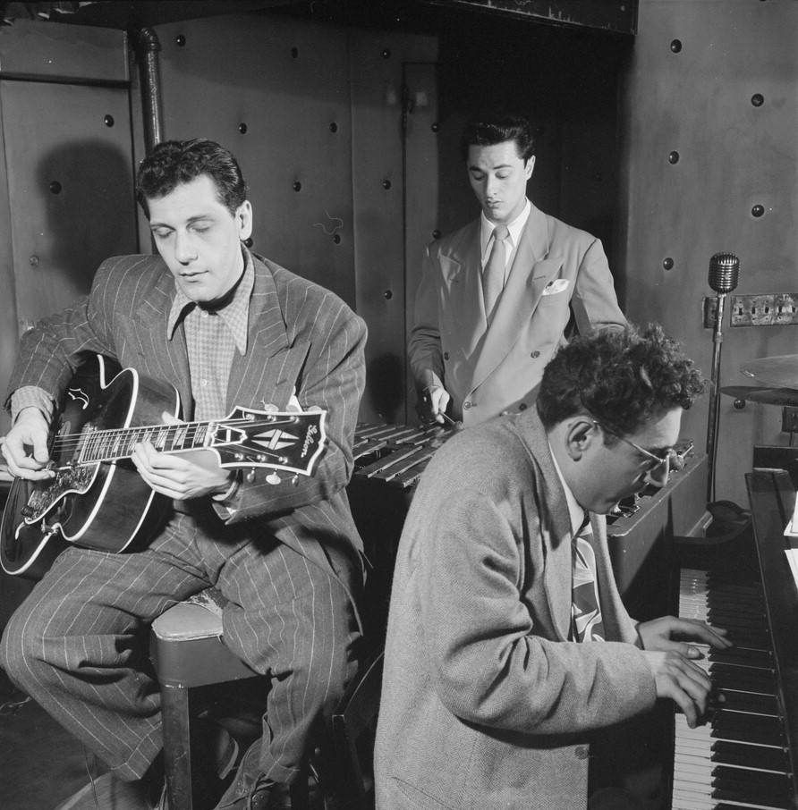 Bill De Arango, Terry Gibbs, and Harry Biss, THree Deuces, NYC, ca. June 1947. Photography by William P. Gottlieb